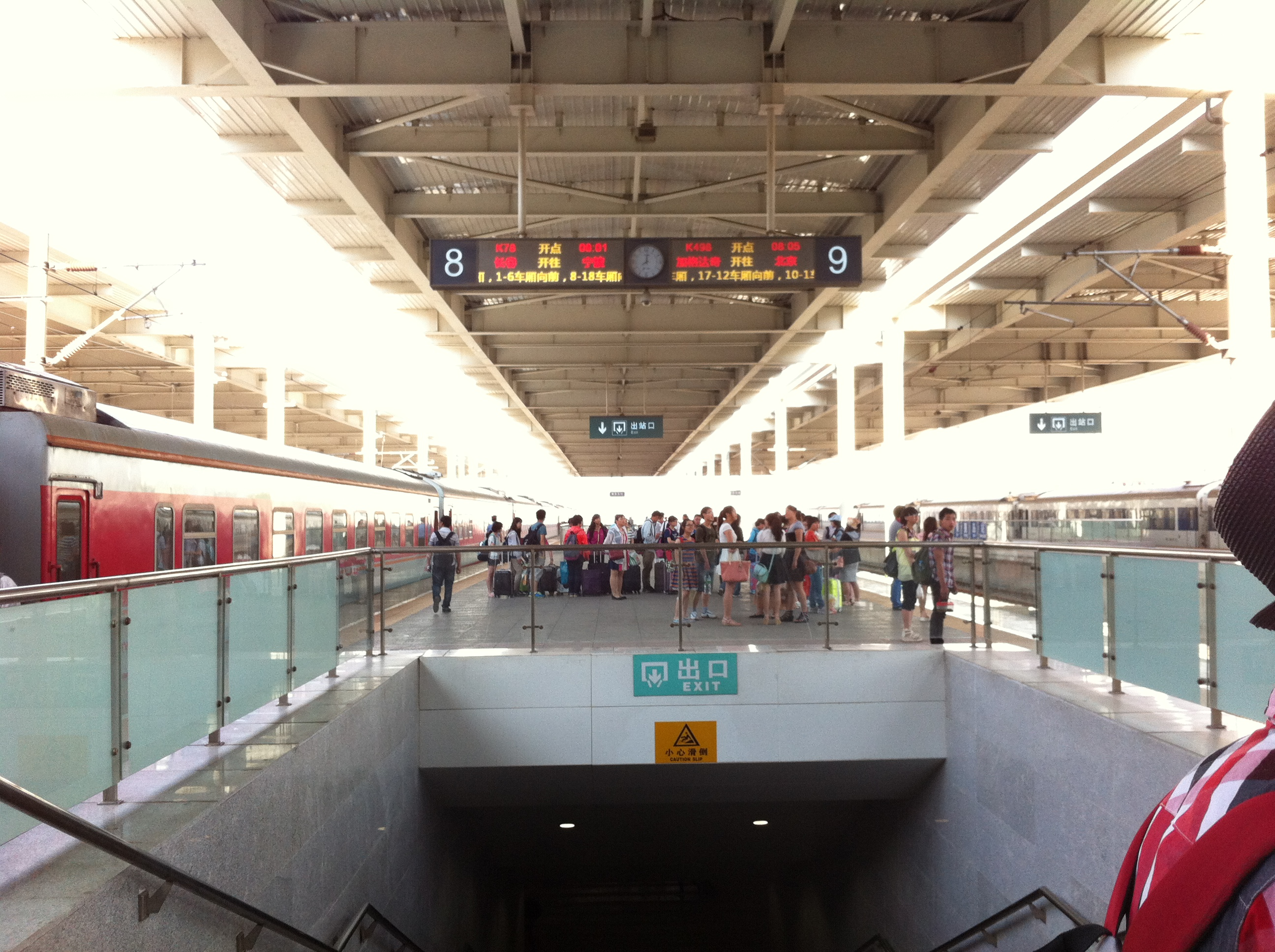 There were 25Gs asK78 from Changchun to Ningbo, along with remote 25Ts.